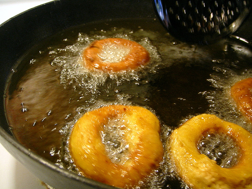 pumpkin doughnuts by Waldo Jaquith on Flickr